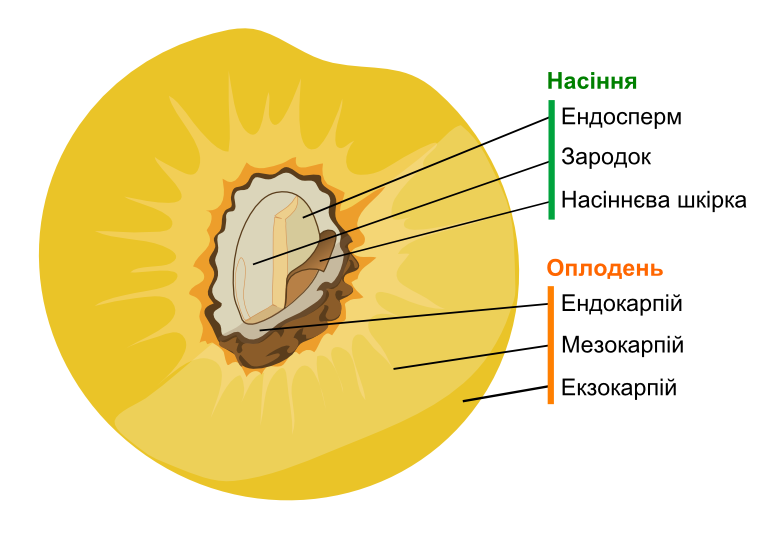 Peach as an example of a drupe (fruit), with a hard endocarp